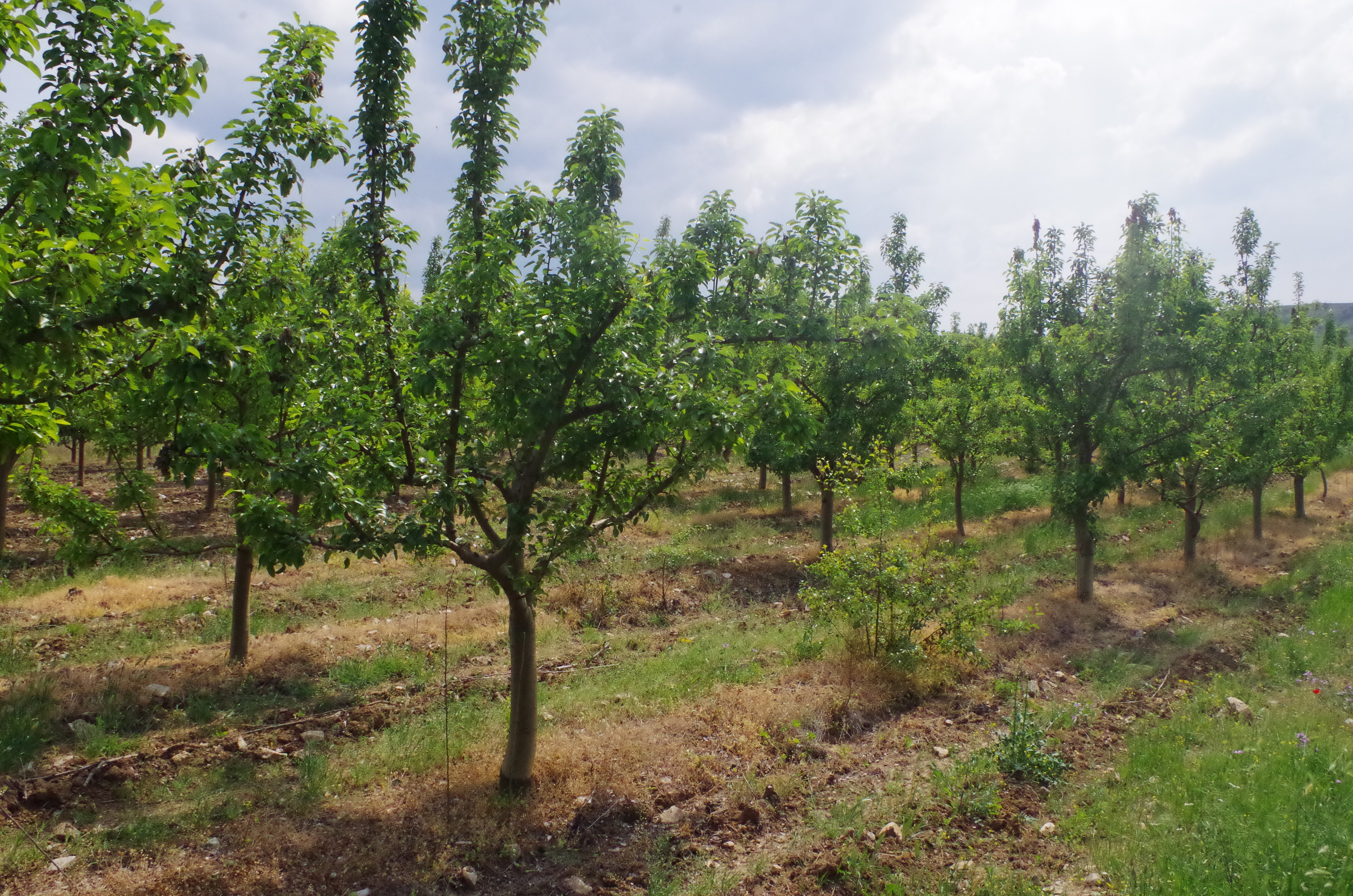 Pear threes in orchard near Sirkovo, Macedonia